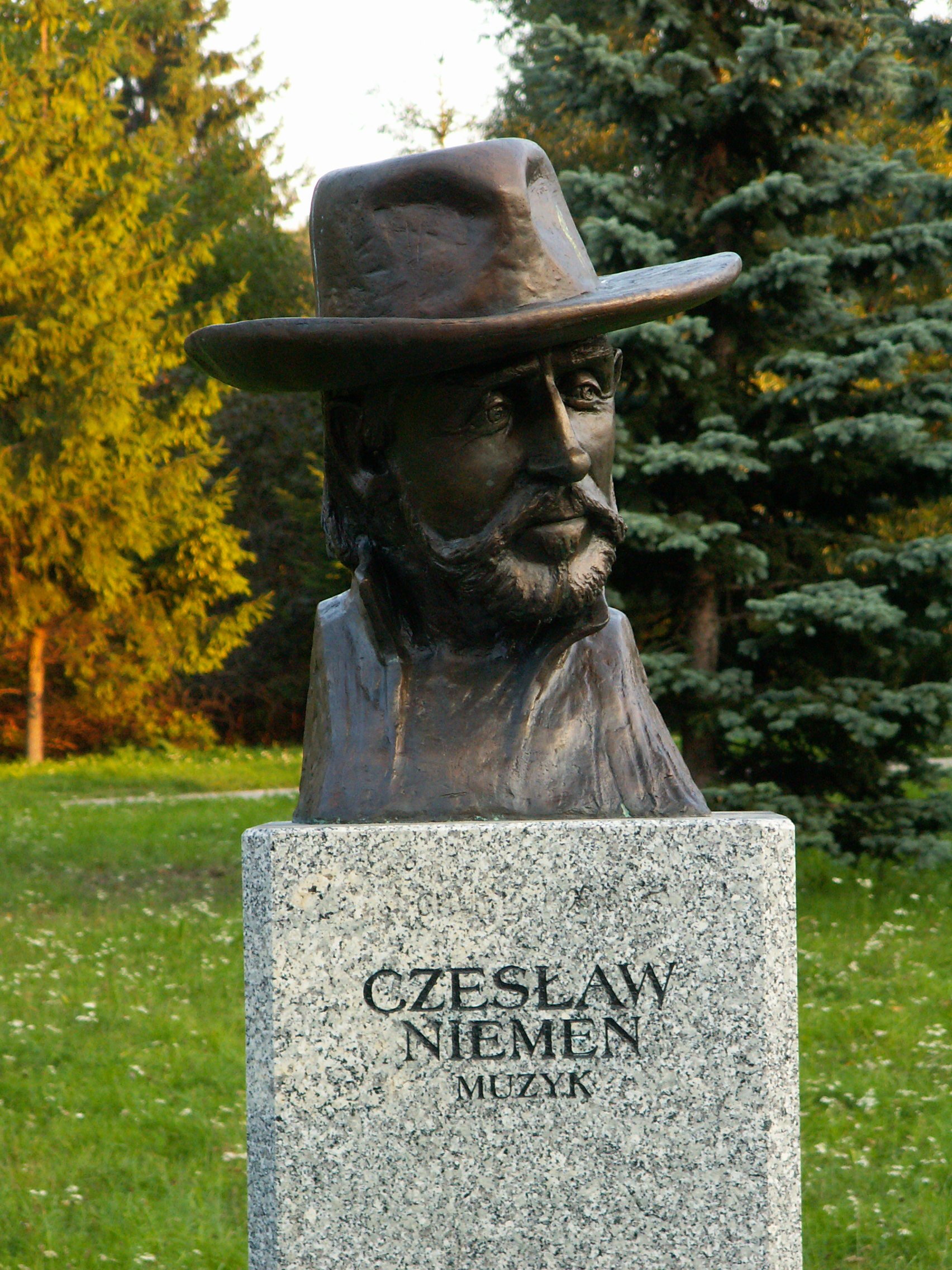 Bust of Czesław Niemen in Celebrity Alley in Kielce (Poland)